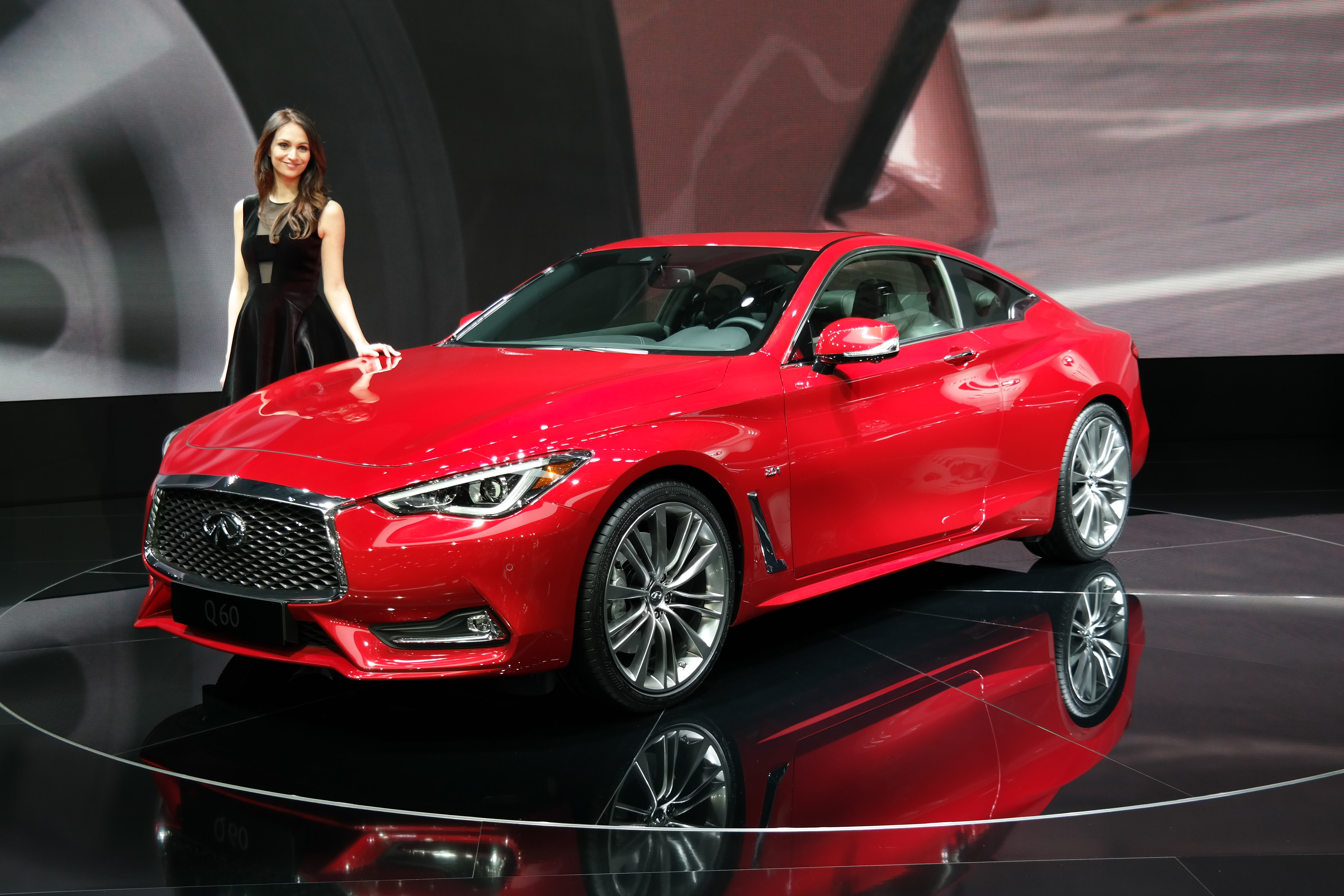 Geneva Motor Show 2016 (photo taken on the first press day)